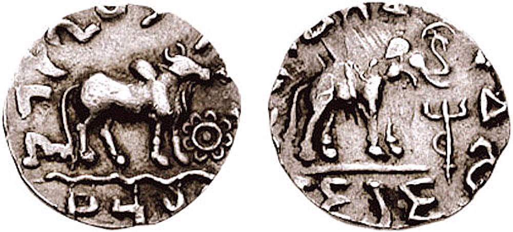 Audumbaras coin 1st century BCE. King "Mahadeva." Circa 1st century BC. AR Drachm (2.23 gm, 6h). "Bhagavata mahadevasa rajarana" in Karosthi, brahma bull standing right; lotus flower(?) before / "Bhagavata-mahadevasa rajarana" in Brahmi, Elephant standing right; trident before. Alternative potential attribution of these coins to the Vemaki tribe.